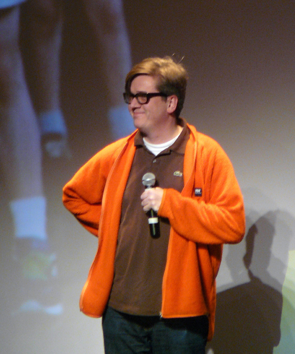 Tomas Alfredson at Fantastic'arts 2009